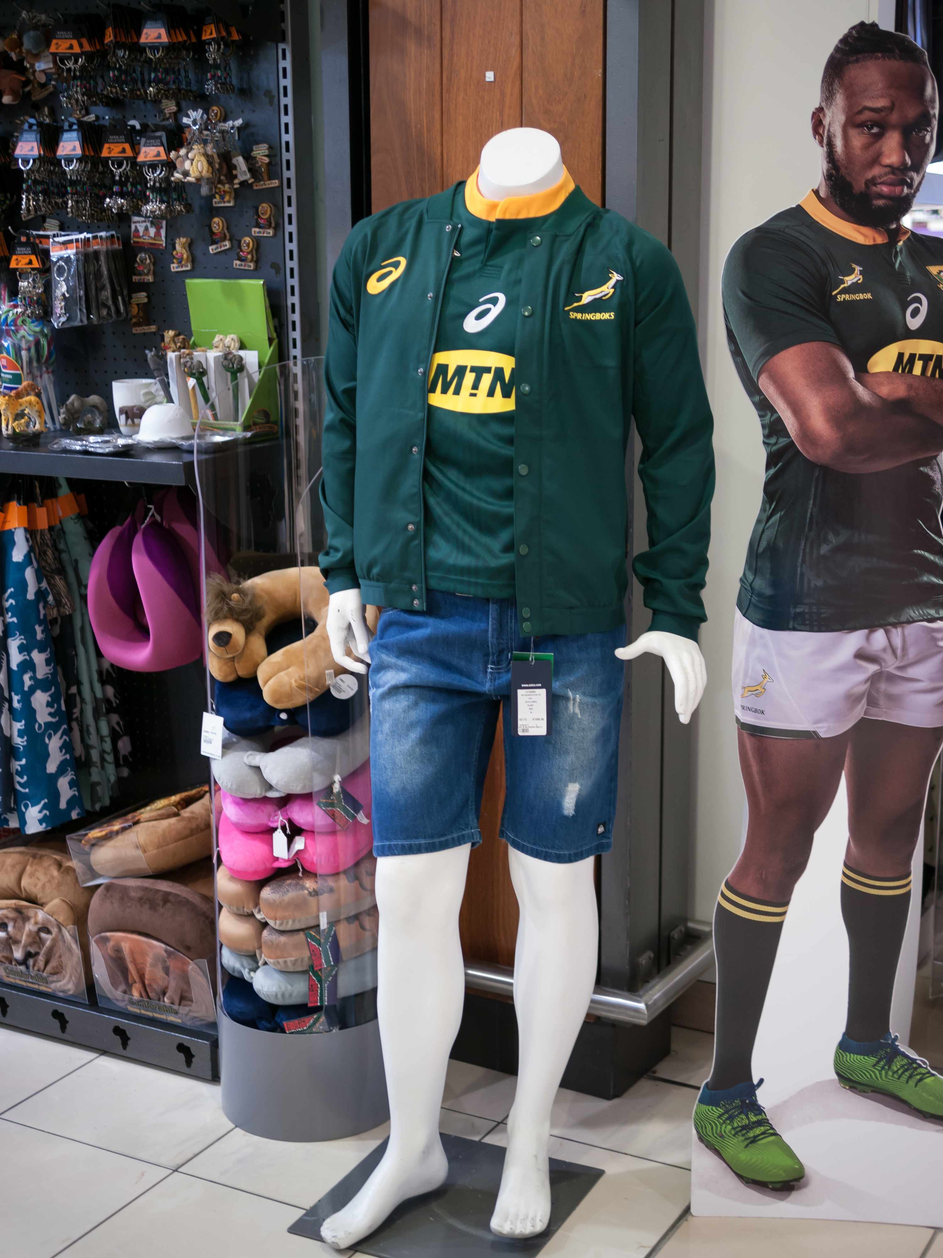 After Wikimania 2018